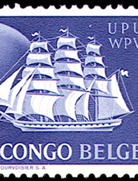 Postage stamp of Belgian Congo, 75th anniv. of UPU, 4 francs, 1949